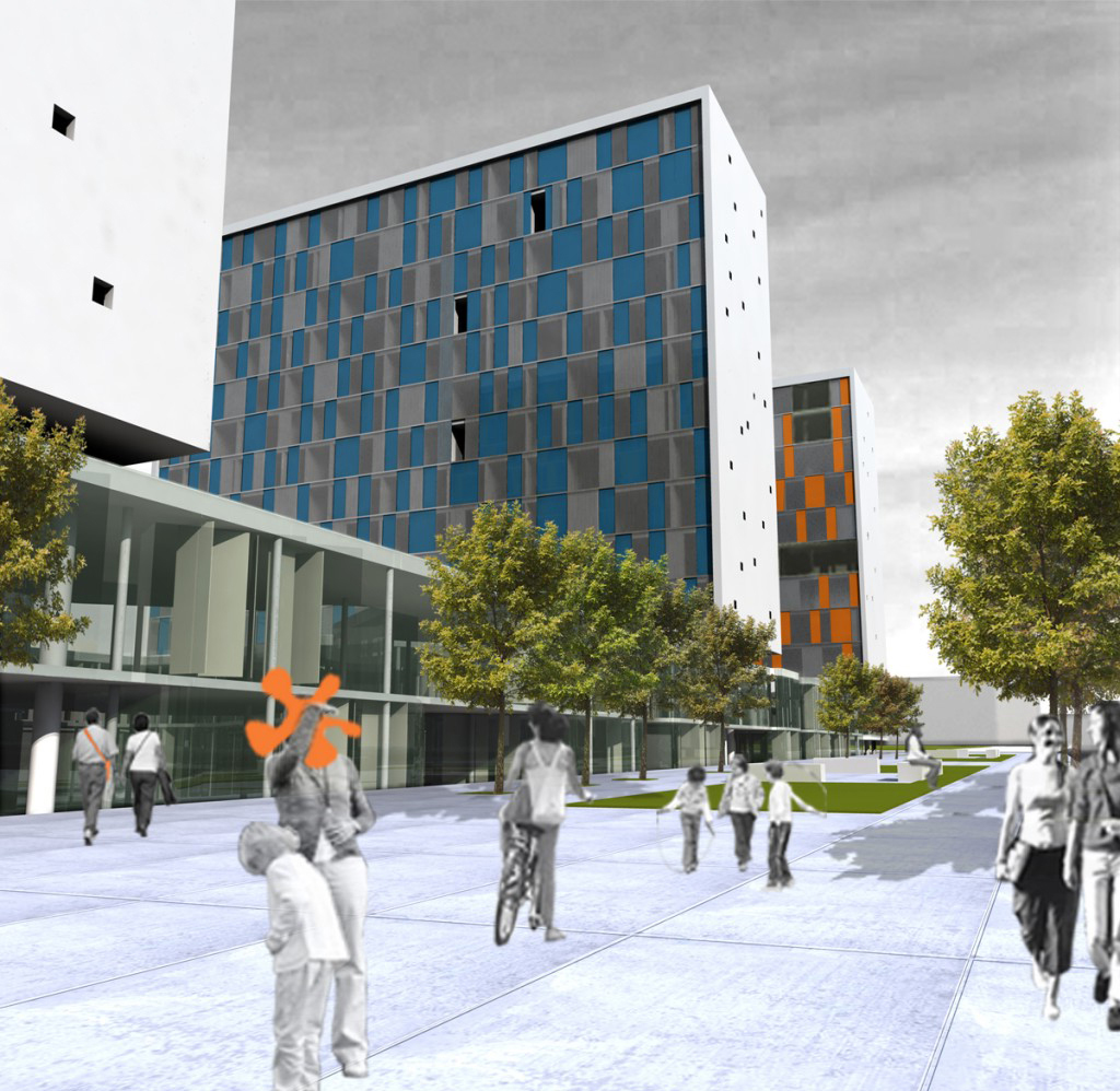 Residential Complex-Zaragoza-First-Prize